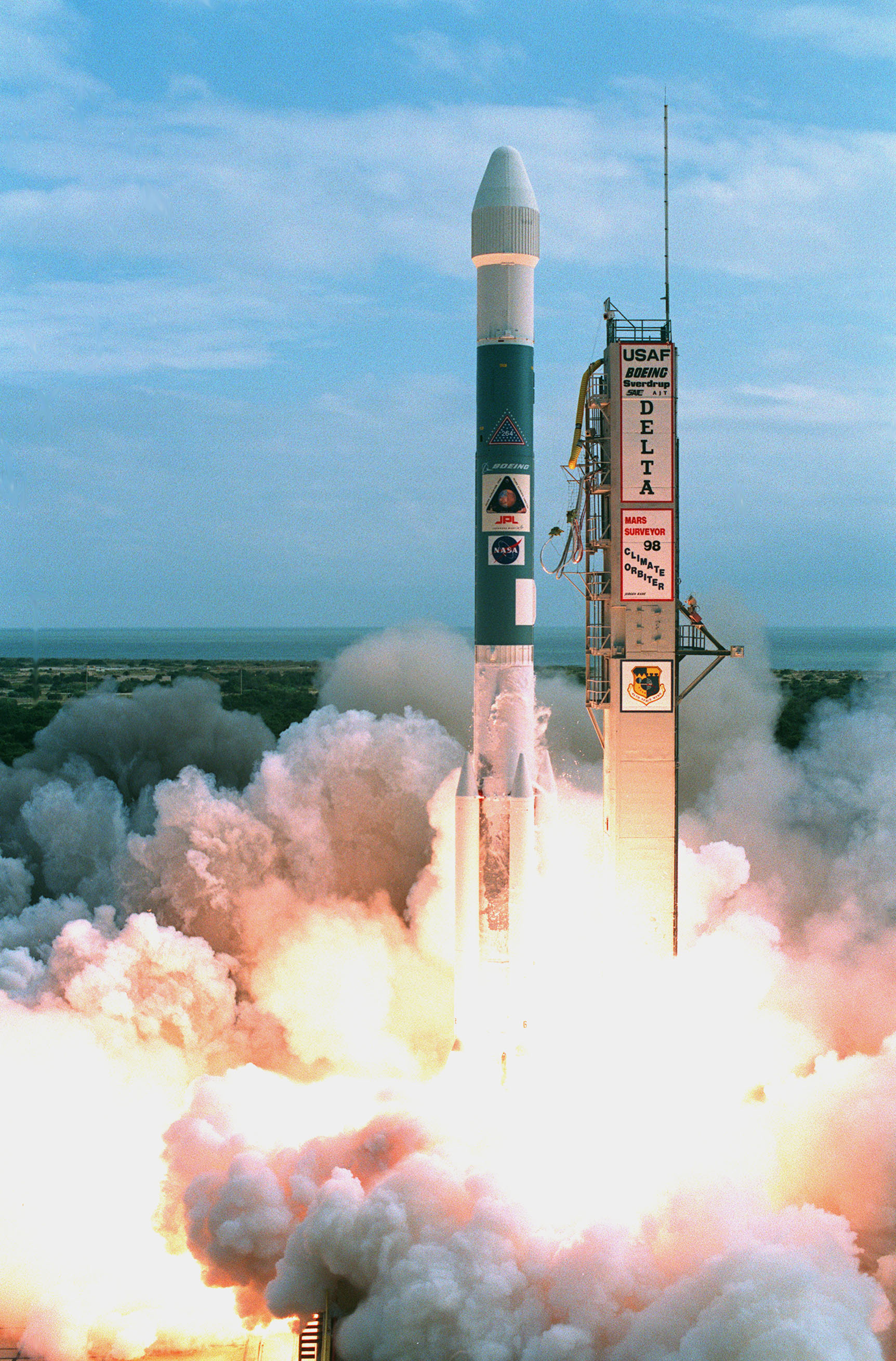 A Boeing Delta II 7425 expendable launch vehicle lifts off with NASA's Mars Climate Orbiter at 1:45:51 p.m. EST, on Dec. 11, 1998, from Launch Complex 17A, Cape Canaveral Air Station. The launch was delayed one day when personnel detected a battery-related software problem in the spacecraft. The problem was corrected and the launch was rescheduled for the next day. The first of a pair of spacecraft to be launched in the Mars Surveyor '98 Project, the orbiter is heading for Mars where it will first provide support to its companion Mars Polar Lander spacecraft, which is planned for launch on Jan. 3, 1999. The orbiter's instruments will then monitor the Martian atmosphere and image the planet's surface on a daily basis for one Martian year (1.8 Earth years). It will observe the appearance and movement of atmospheric dust and water vapor, as well as characterize seasonal changes on the surface. The detailed images of the surface features will provide important clues to the planet's early climate history and give scientists more information about possible liquid water reserves beneath the surface.